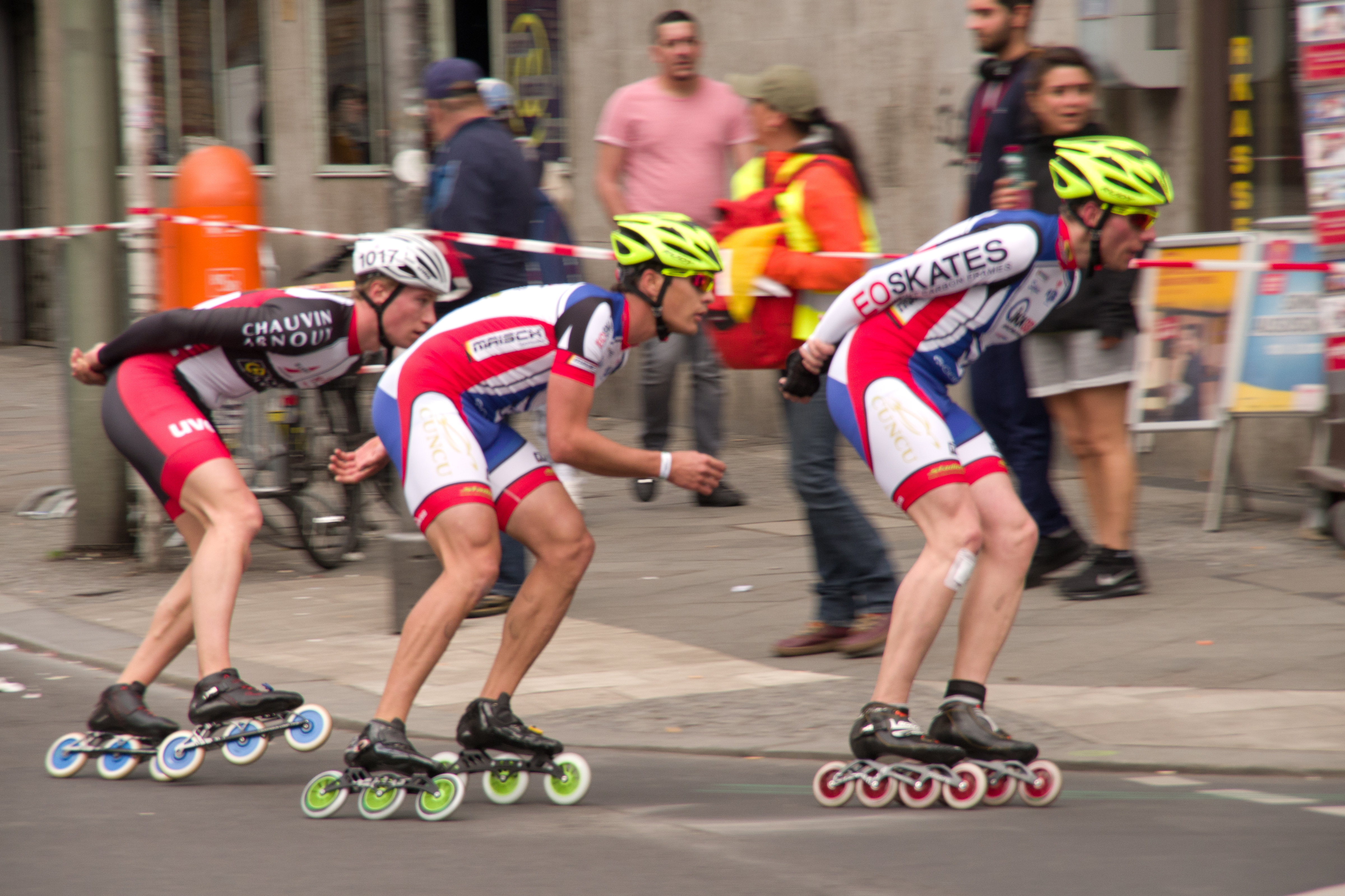 speed skaters racing on the streets of Berlin April 2017